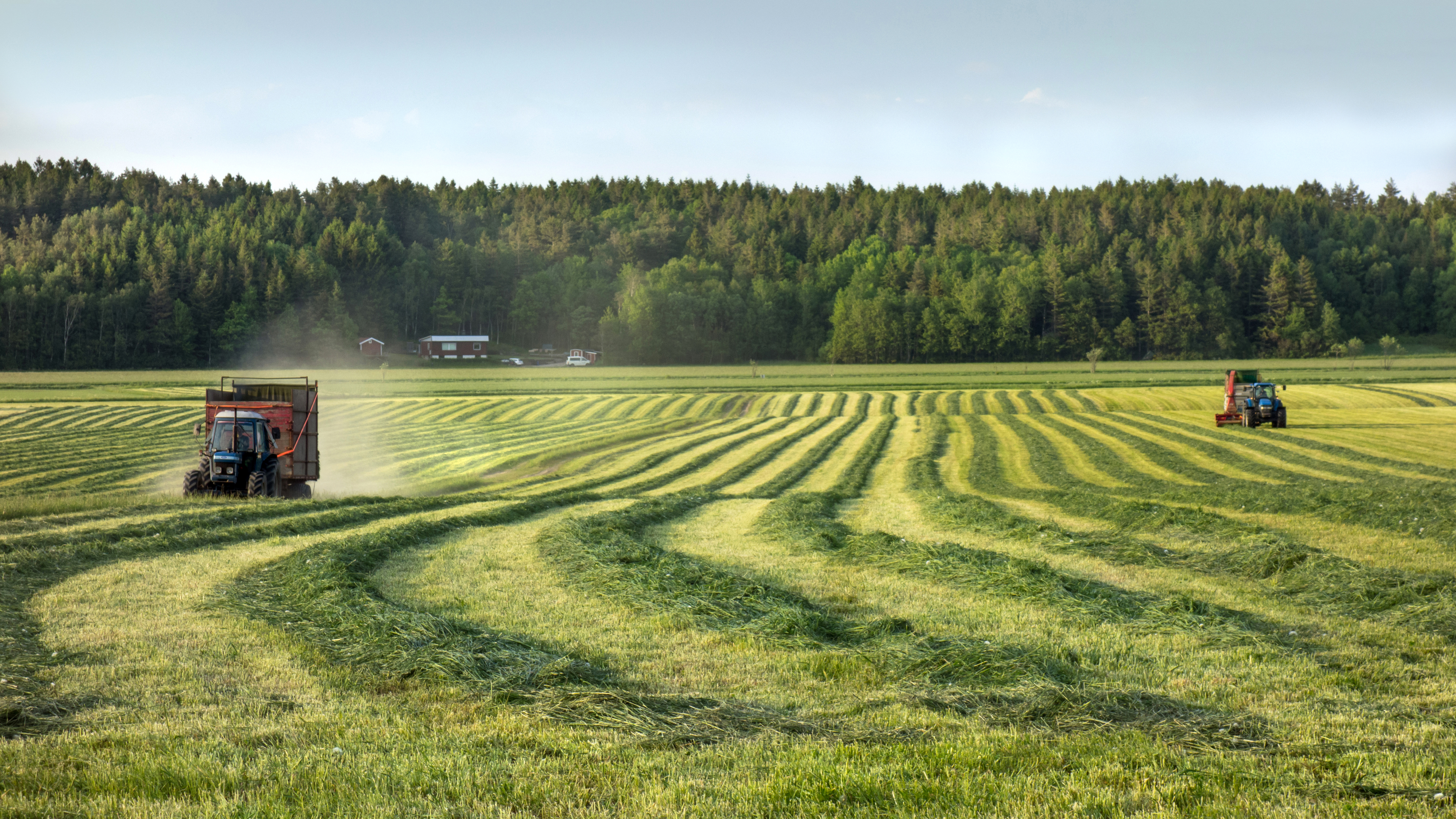 Silage windrows in a field in Brastad, Lysekil Municipality, Sweden. Two tractors are gathering the silage and transporting it to the farm on the other side of the road.